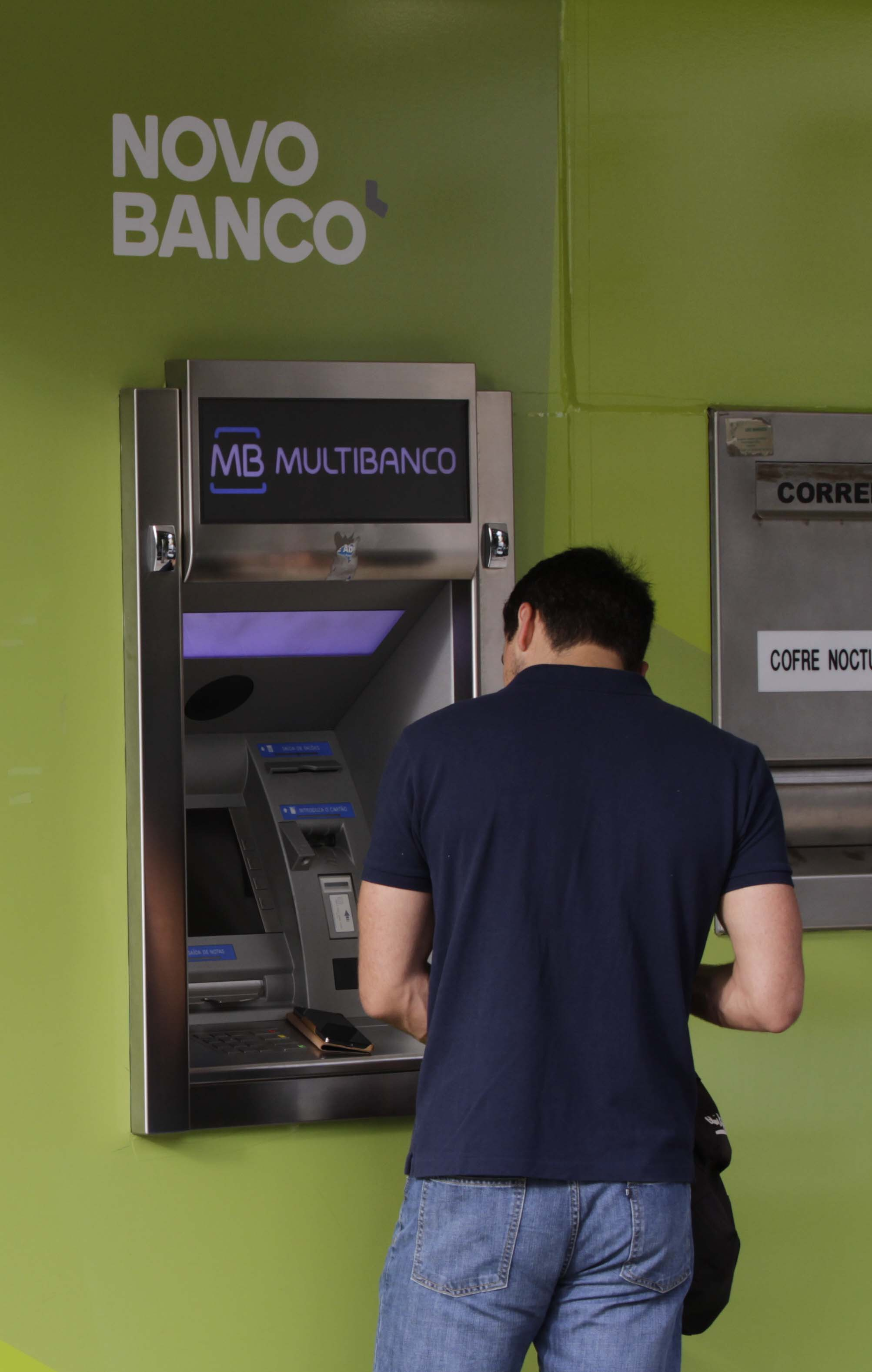 Customer of Banco Novo lifts off cash in Lisbon, Portugal